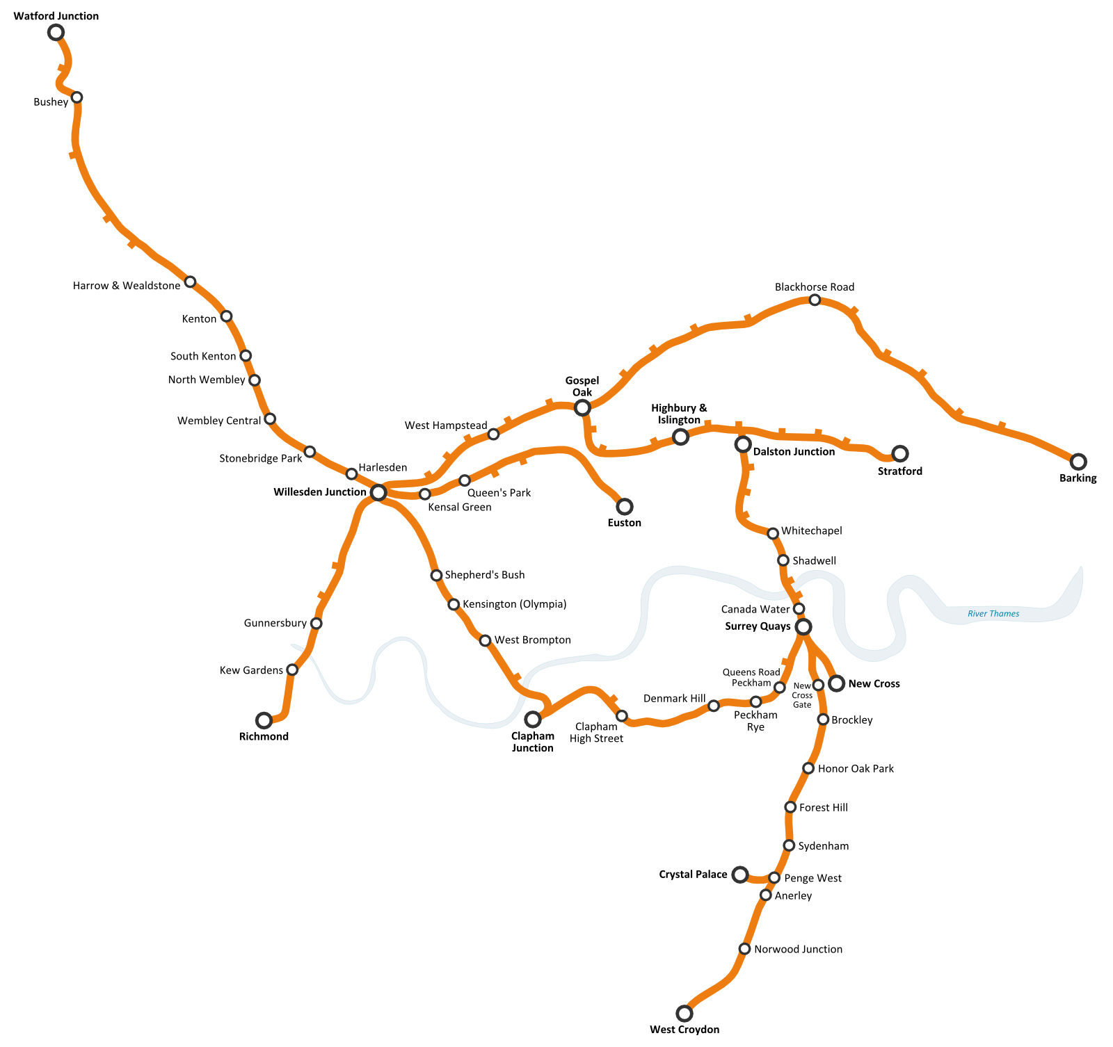 Proposed London Overground network in 2012, once the second phase of the East London Line extension has been built. Note: stations shown with their names are either terminus or those with a transport interchange (rail, underground, DLR, other Overground lines)